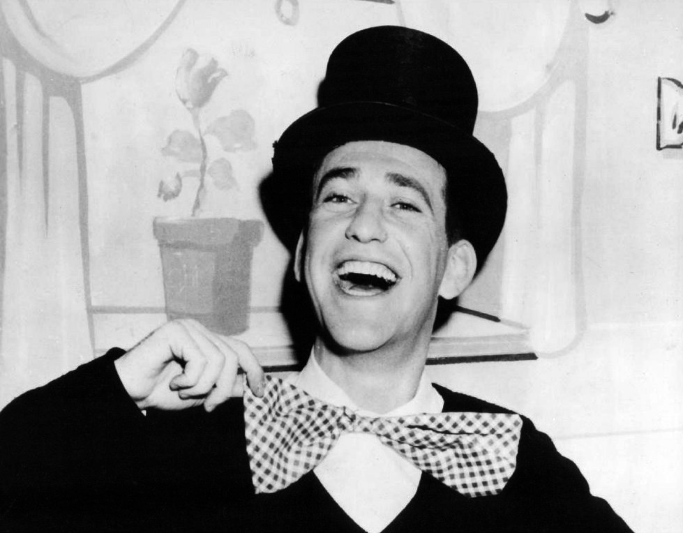 Photo of comedian Soupy Sales from his Lunch With Soupy Sales television program.